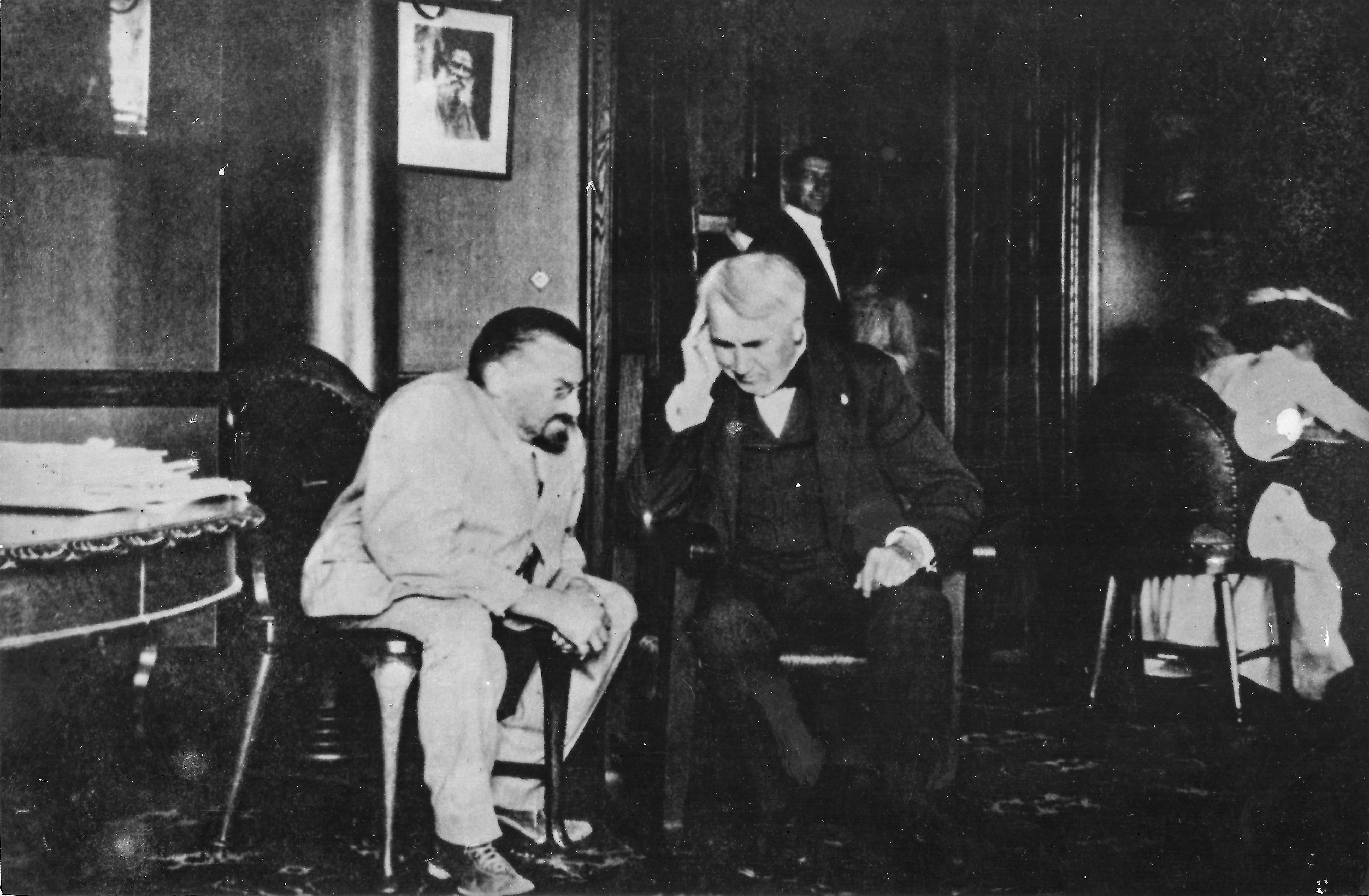 Thomas Edison and Charles P. Steinmetz in the library of the Briarcliff Lodge during a September 1909 meeting of the Edison Lighting Company. Jpg duplicate of Tif File:BriarcliffLodgeEdison.tif.